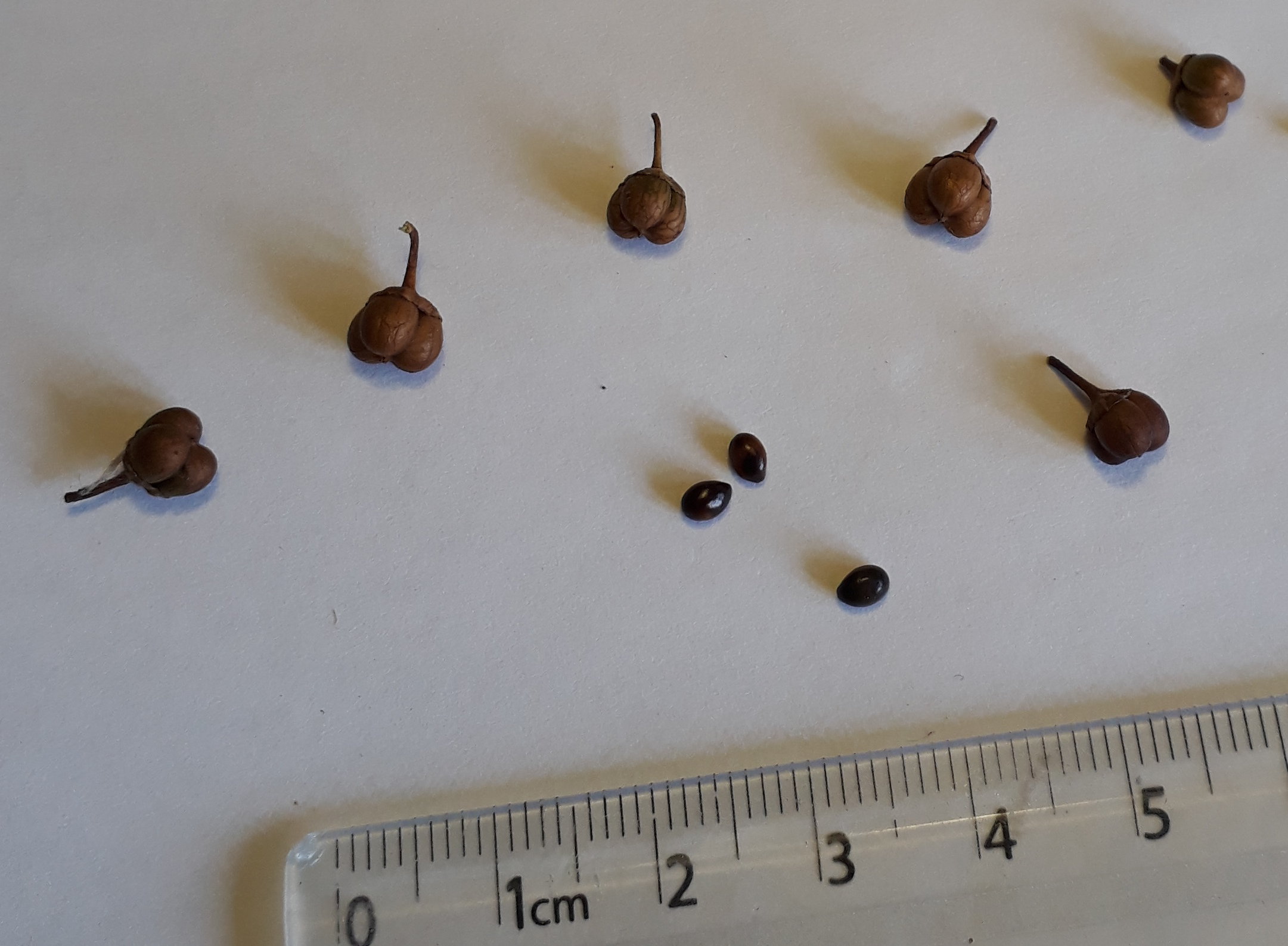 Colletia paradoxa seeds and seed capsules. Collected Nov 10 2018 in Porto Alegre, Brazil.